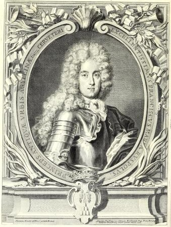 Illustration from Filippo Buonanni's Musaeum Kircherianum, sive, Musaeum a P. Athanasio Kirchero in Collegio Romano Societatis Jesu jam pridem incoeptum nuper restitutum, auctum, descriptum, & iconibus illustratum, published in 1709 in Rome by typis Georgii Plachi, the portrait plate of Francesco Maria Ruspoli was engraved by Arnold van Westerhout after a design by Antonio David